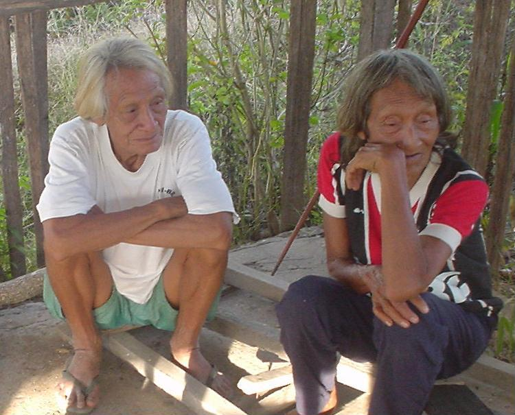 Photo of two Tiriyó Indians of Brazil